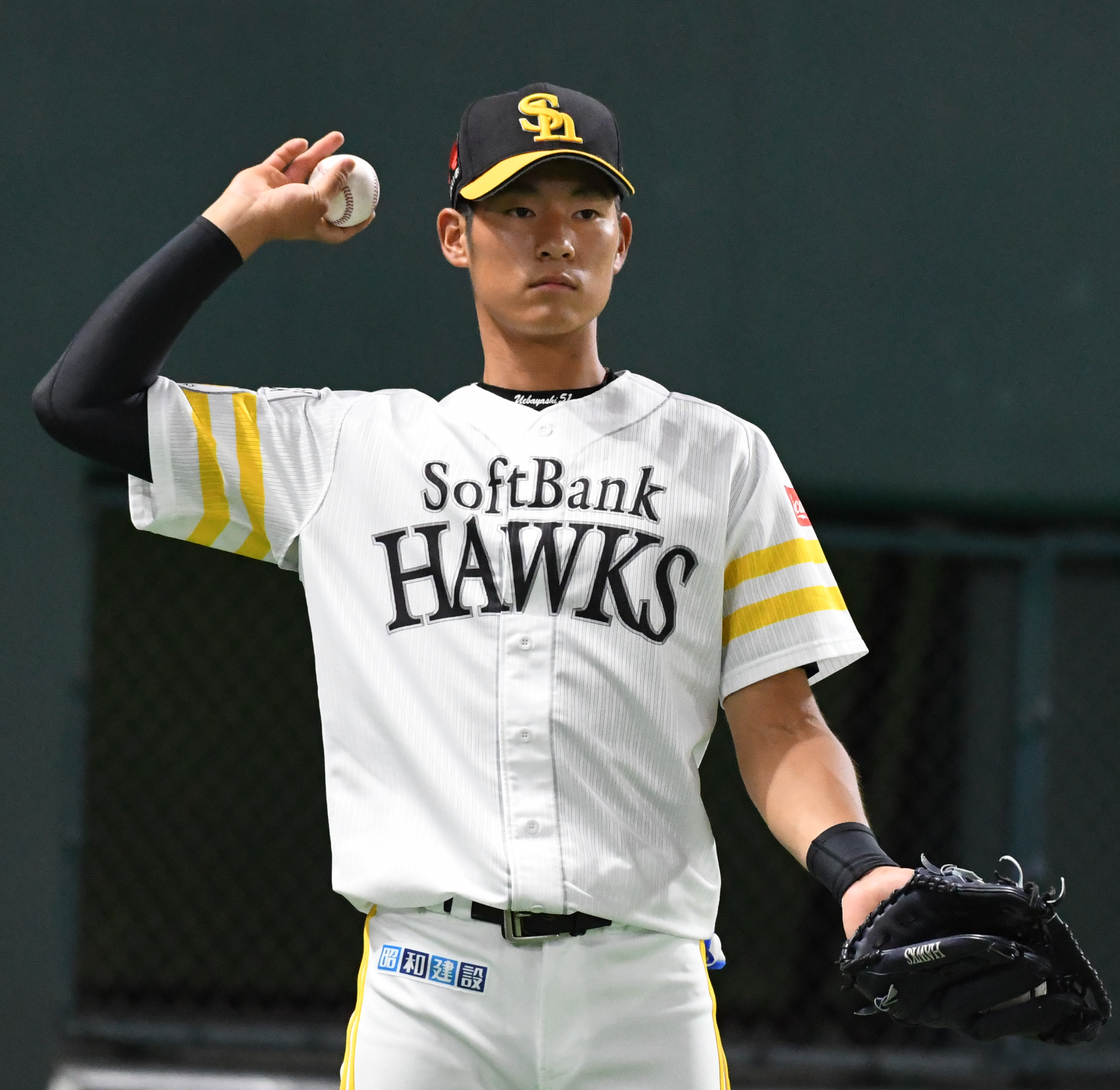 Seiji Uebayashi, outfielder of the Fukuoka SoftBank Hawks, at Fukuoka Dome